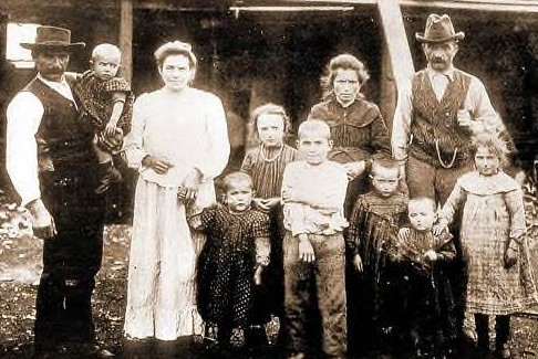 I have done a digital photo of an old photo from my father album, and cut it with my software. It showed the family of a friend called Castagna, from Pavullo (Italy), who emigrated to Capitan Pastene in southern Chile.